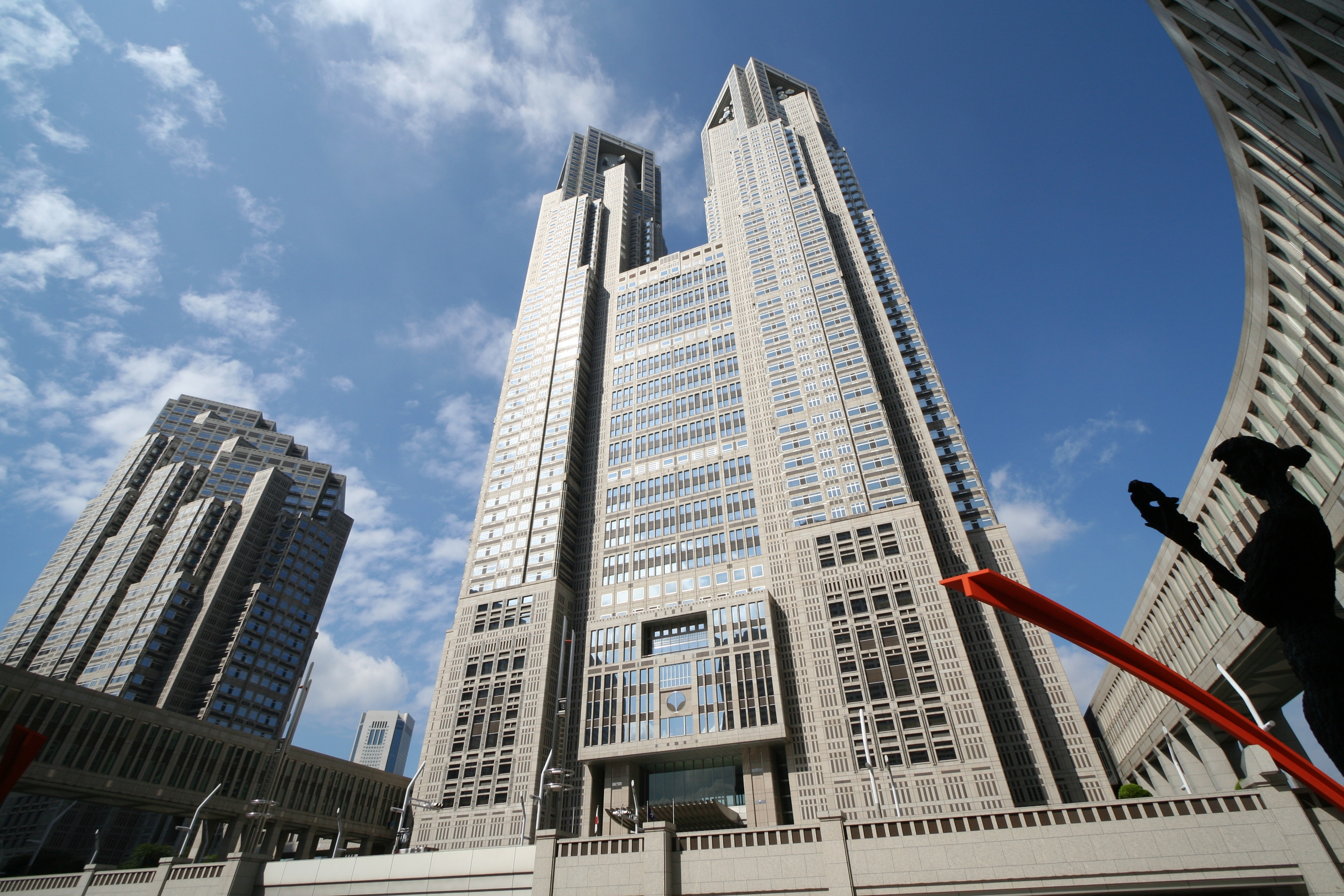 Metropolitan Government Building in Shinjuku, Tôkyô, Japan